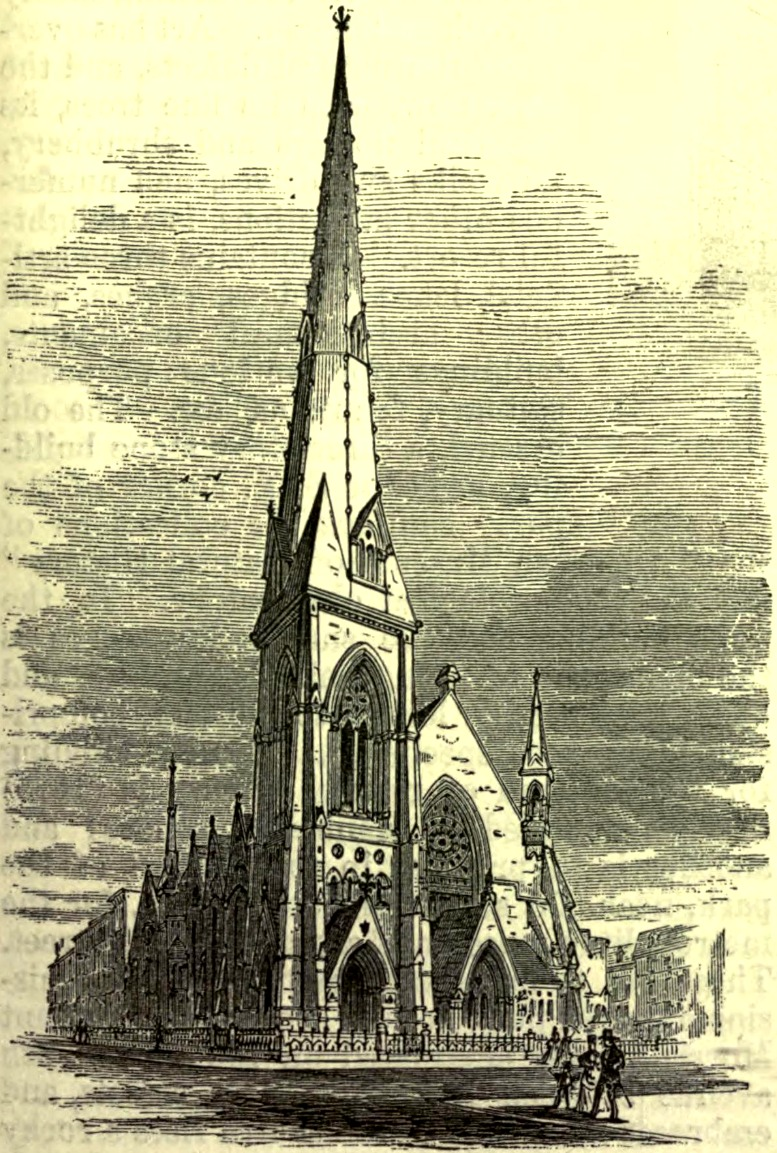 Drawing/wood engraving of the Reformed (Dutch) Church at 5th Avenue and 48th Street in New York City.